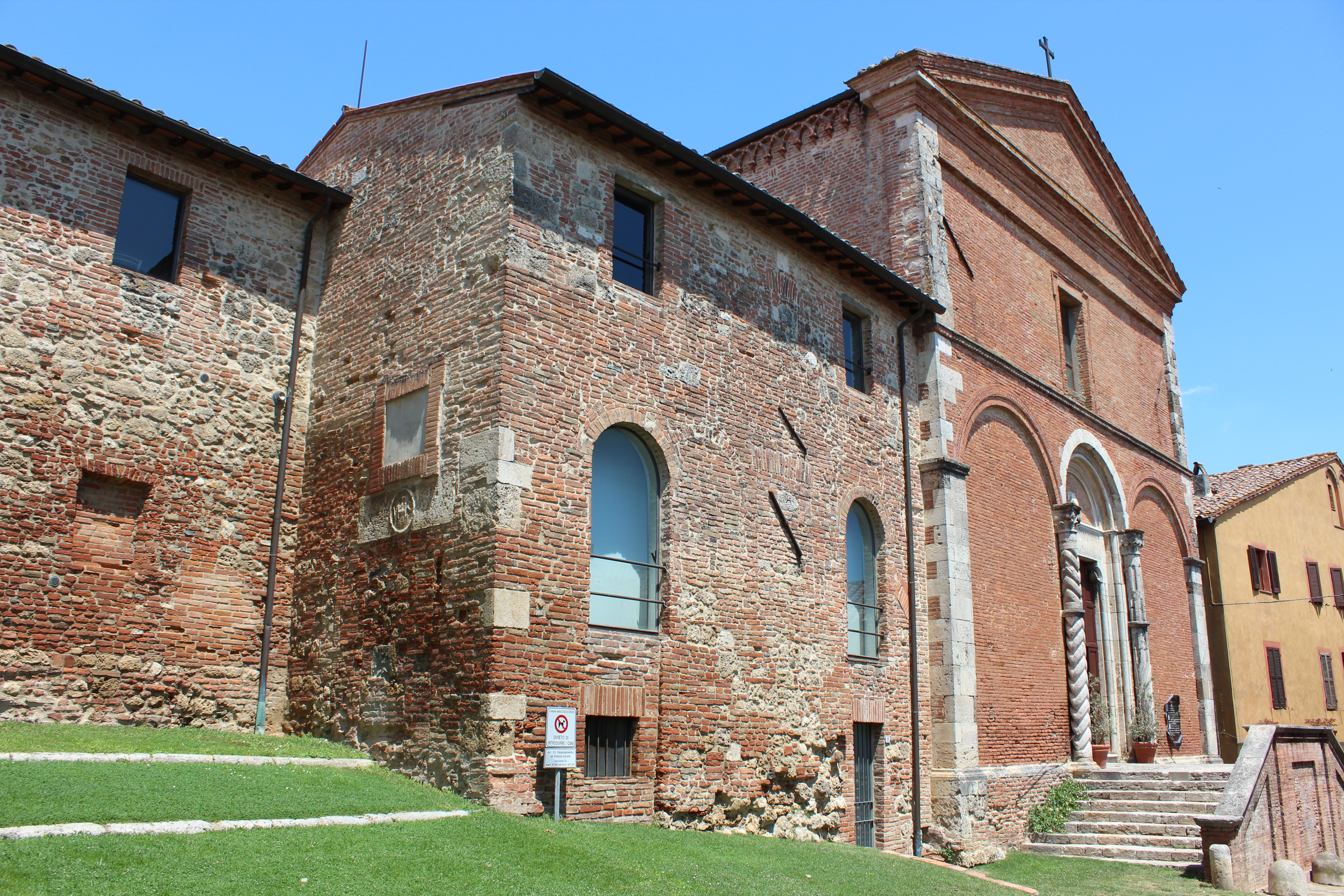 Church of San Francesco in Chiusi, Valdichiana, Province of Siena, Tuscany, Italy